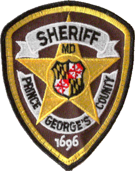 Patch of the Prince George's County Sheriff's Office, used since the late 1980s.